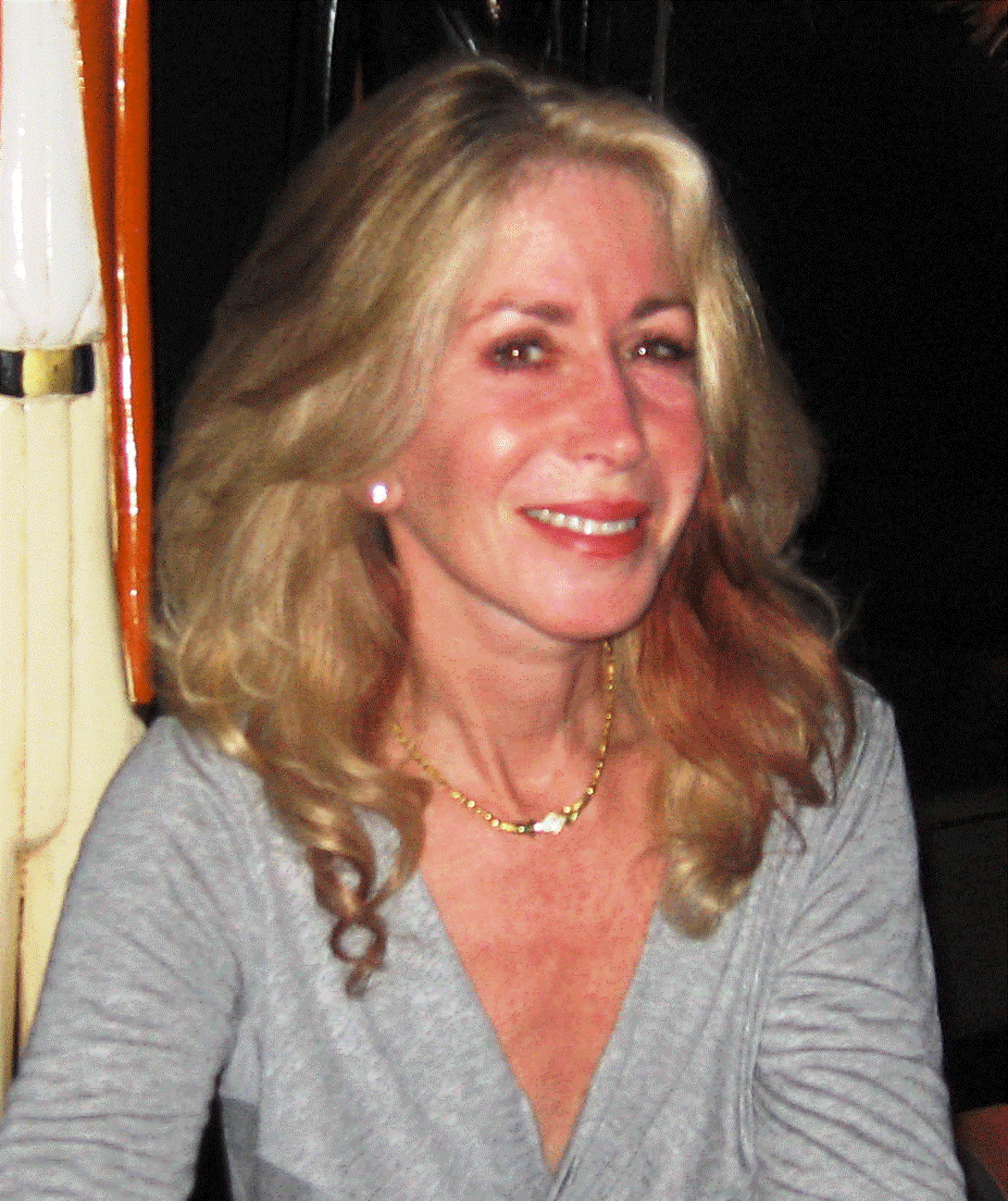 Roxanne Seeman at Blake's in London, England.